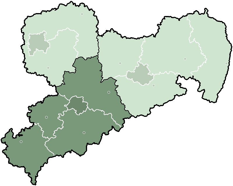 Map of the state Saxony in Germany before 2008, government region Chemnitz highlighted.